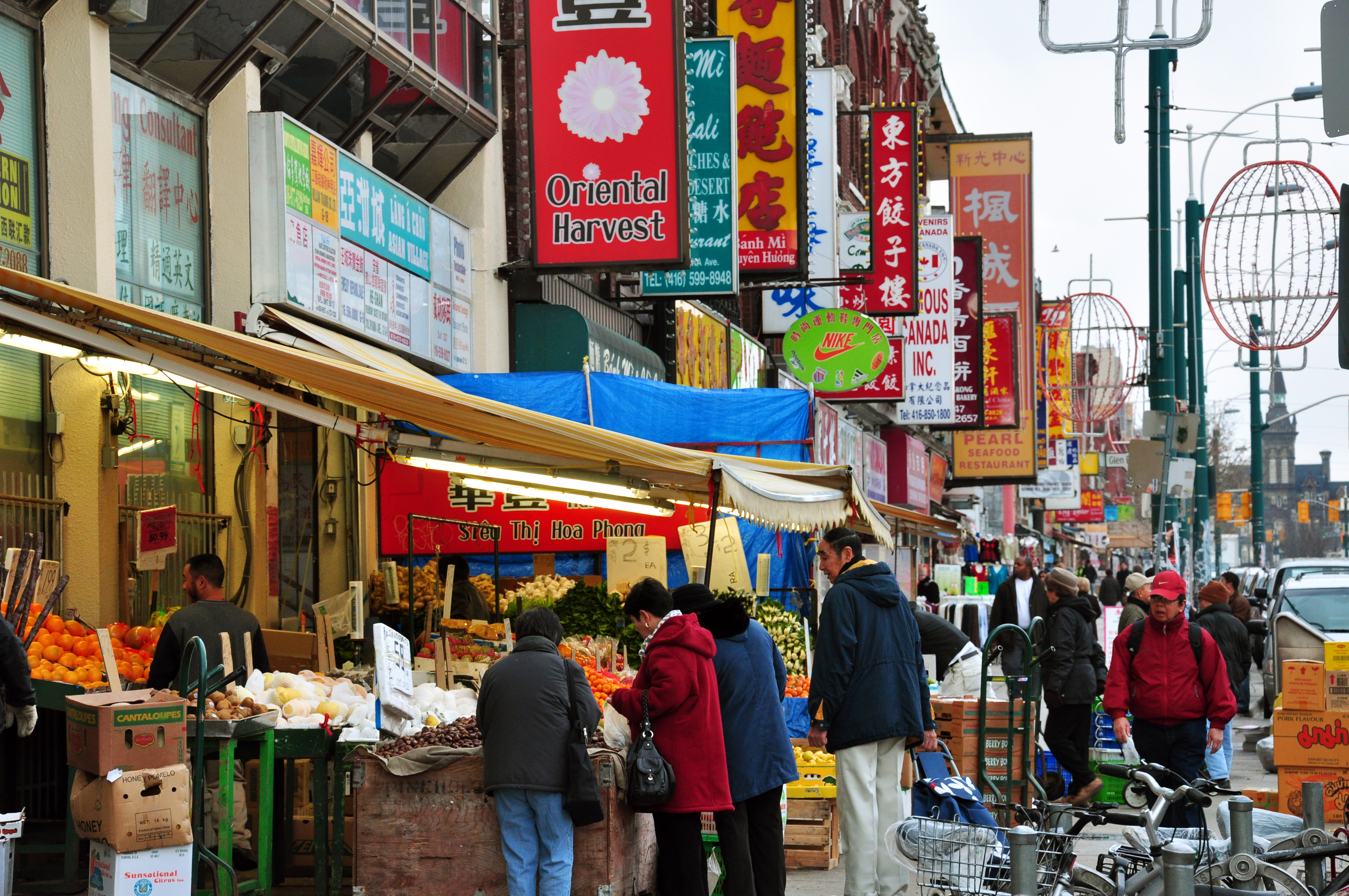 Chinatown Toronto Spadina Avenue Sullivan Road 2009